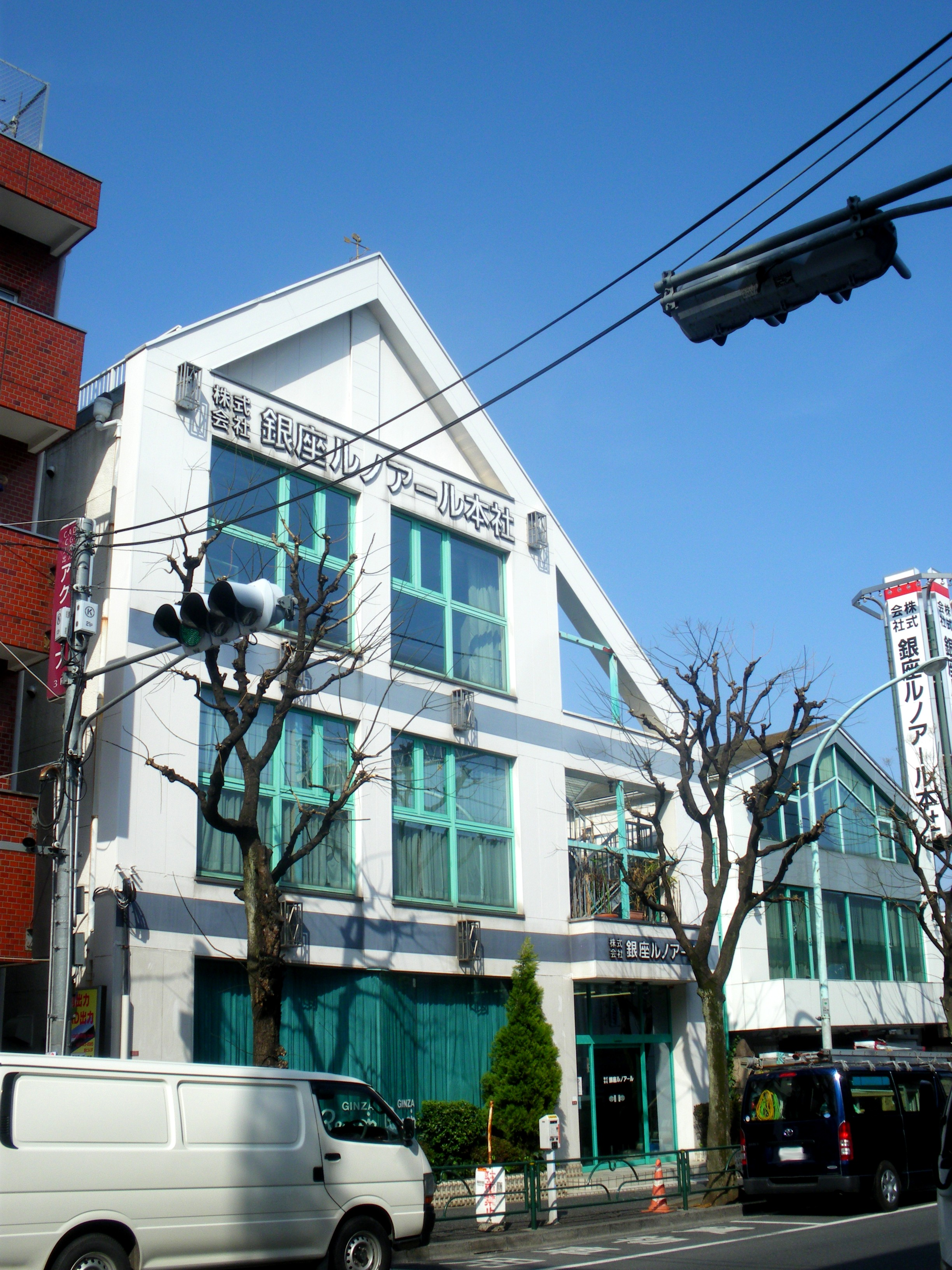 Ginza Renoir head office(Koenjikita,Suginami,Tokyo)